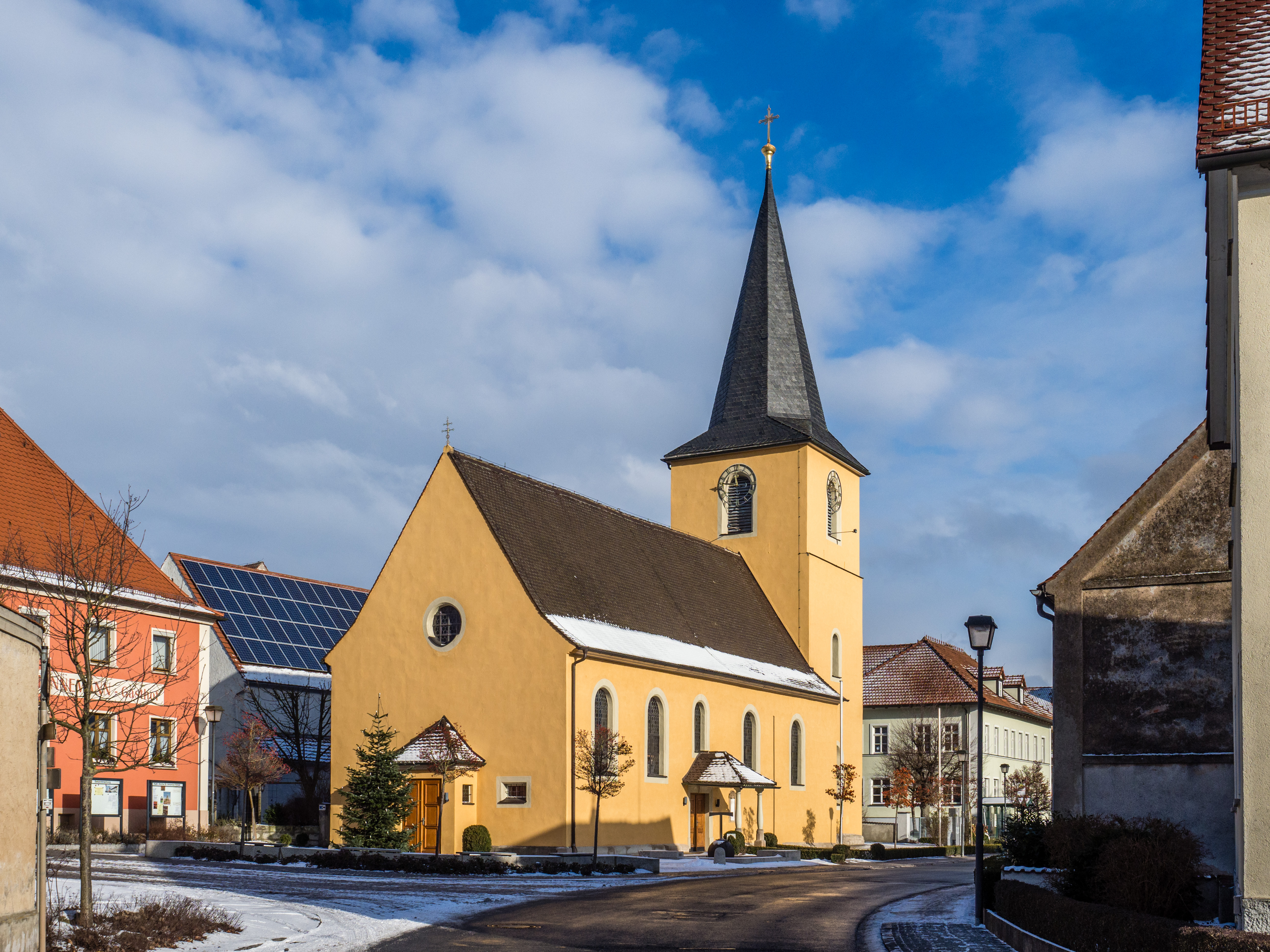 Catholic parish church of St. Anthony the Hermit in Sambach (1594)